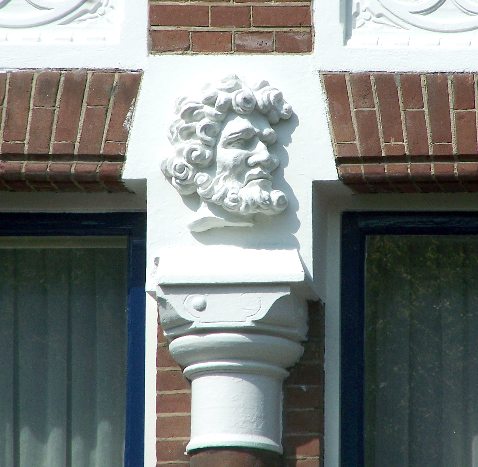 Relief of an impression of Floris de Zwarte (Floris the Black), although no image of what he really looked like is known. Made by J.A. Tolboom in 1989 for the restauration of the building at Mariaplaats 17 in Utrecht.